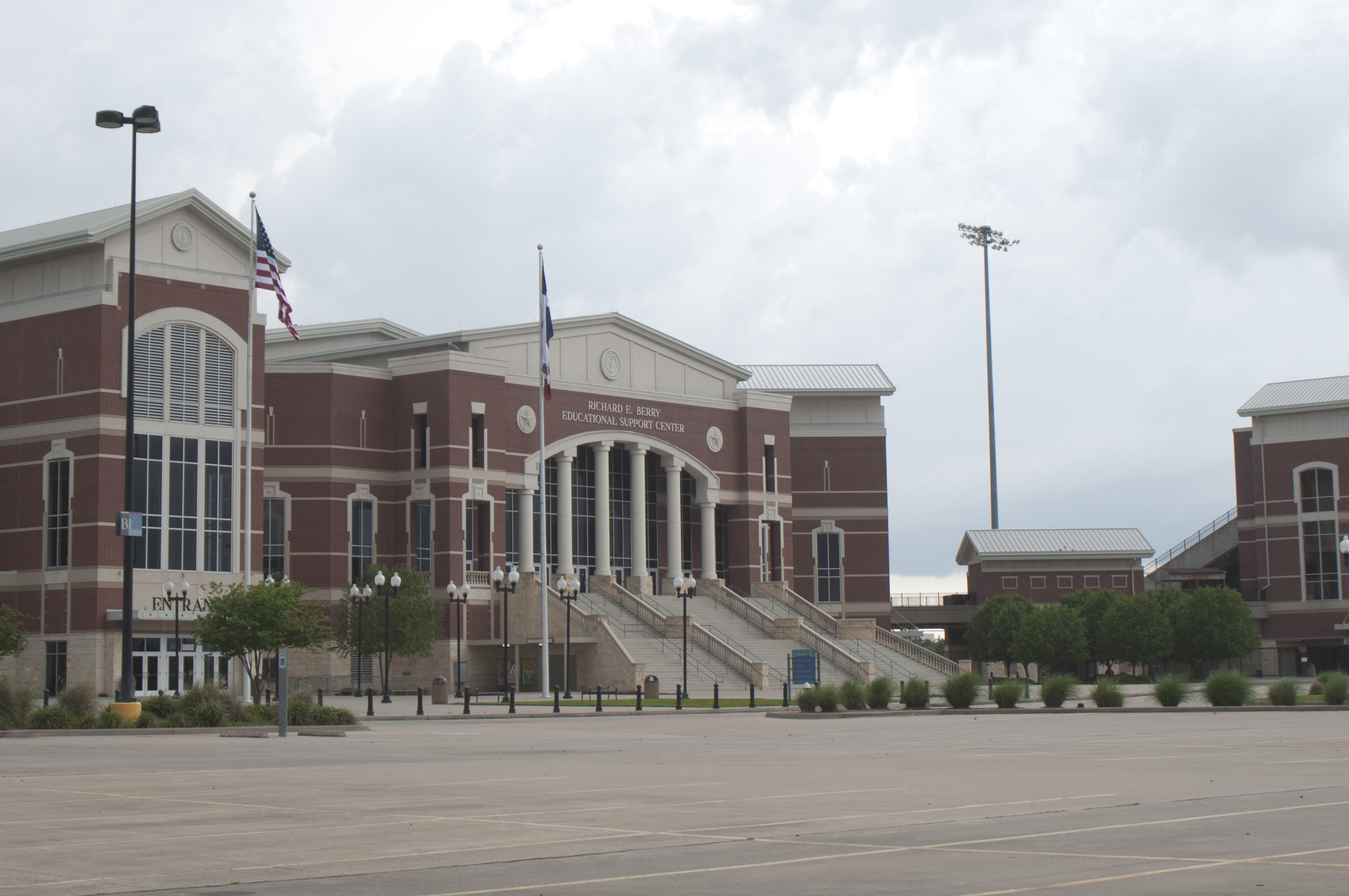 Photo